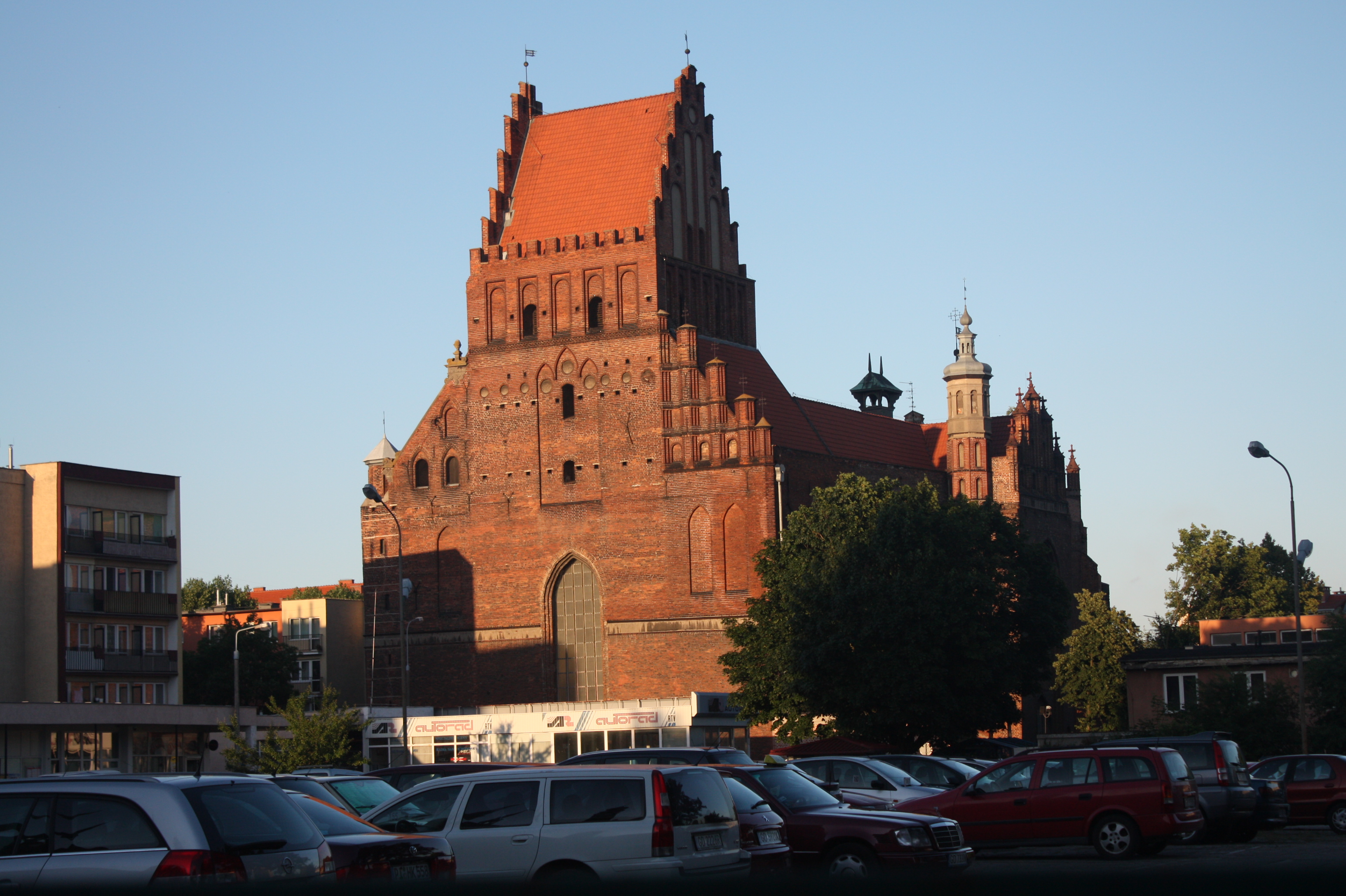 Gdańsk, Church of Saints Peter and Paul